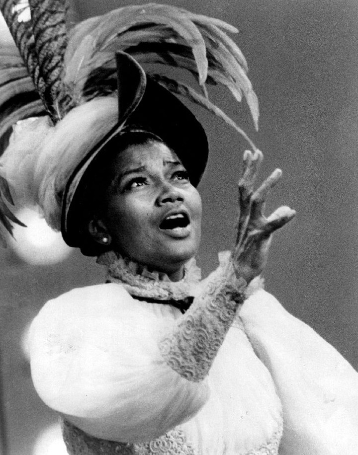 Photo of Pearl Bailey performing on The Ed Sullivan Show in 1968. She sang "Before the Parade Passes By" from the Broadway musical Hello, Dolly!, in which she was starring at the time.